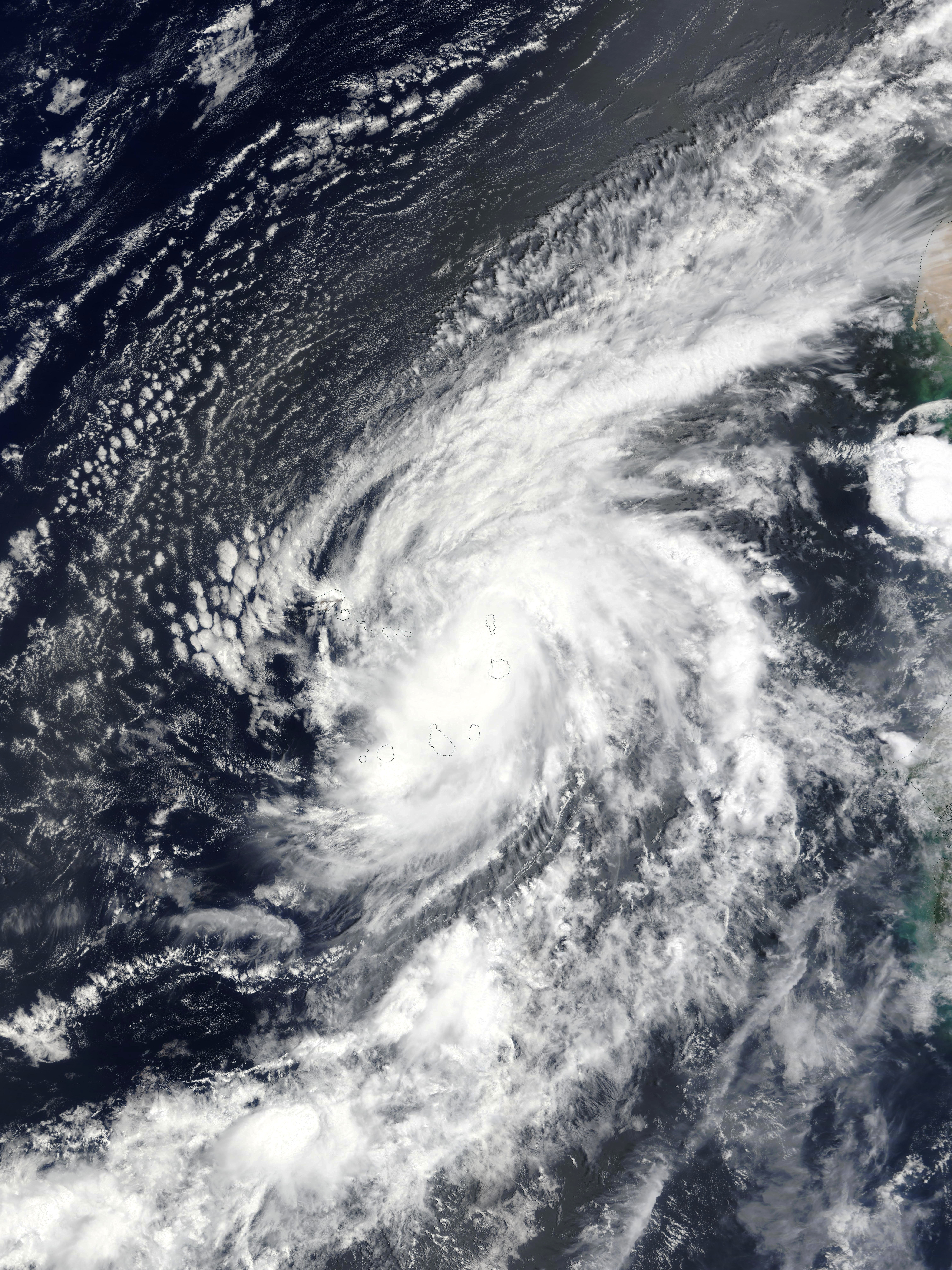 Hurricane Fred (06L) over the Cape Verde Islands